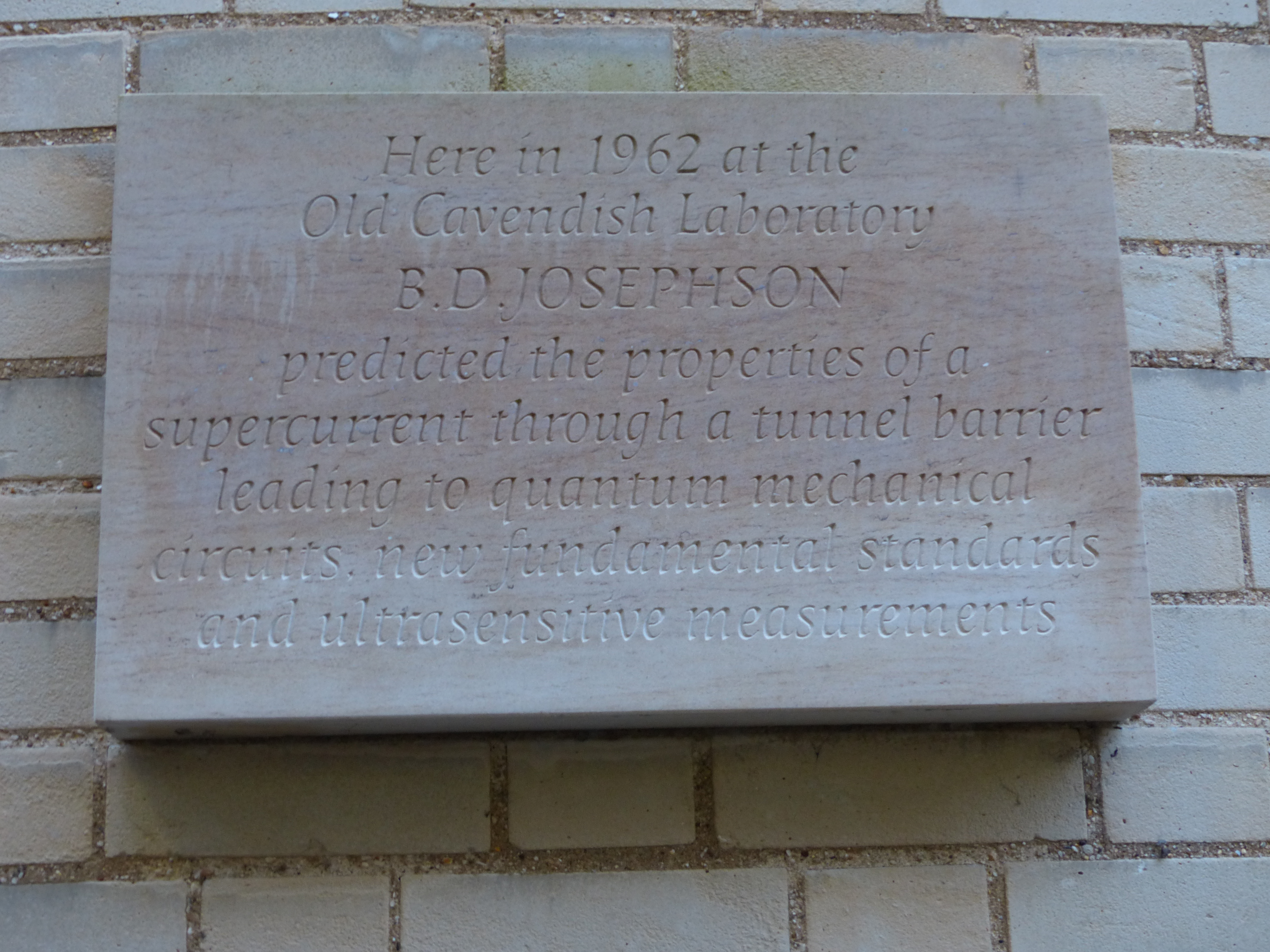 Plaque on the Mond Building, Cambridge, for the physicist Brian Josephson